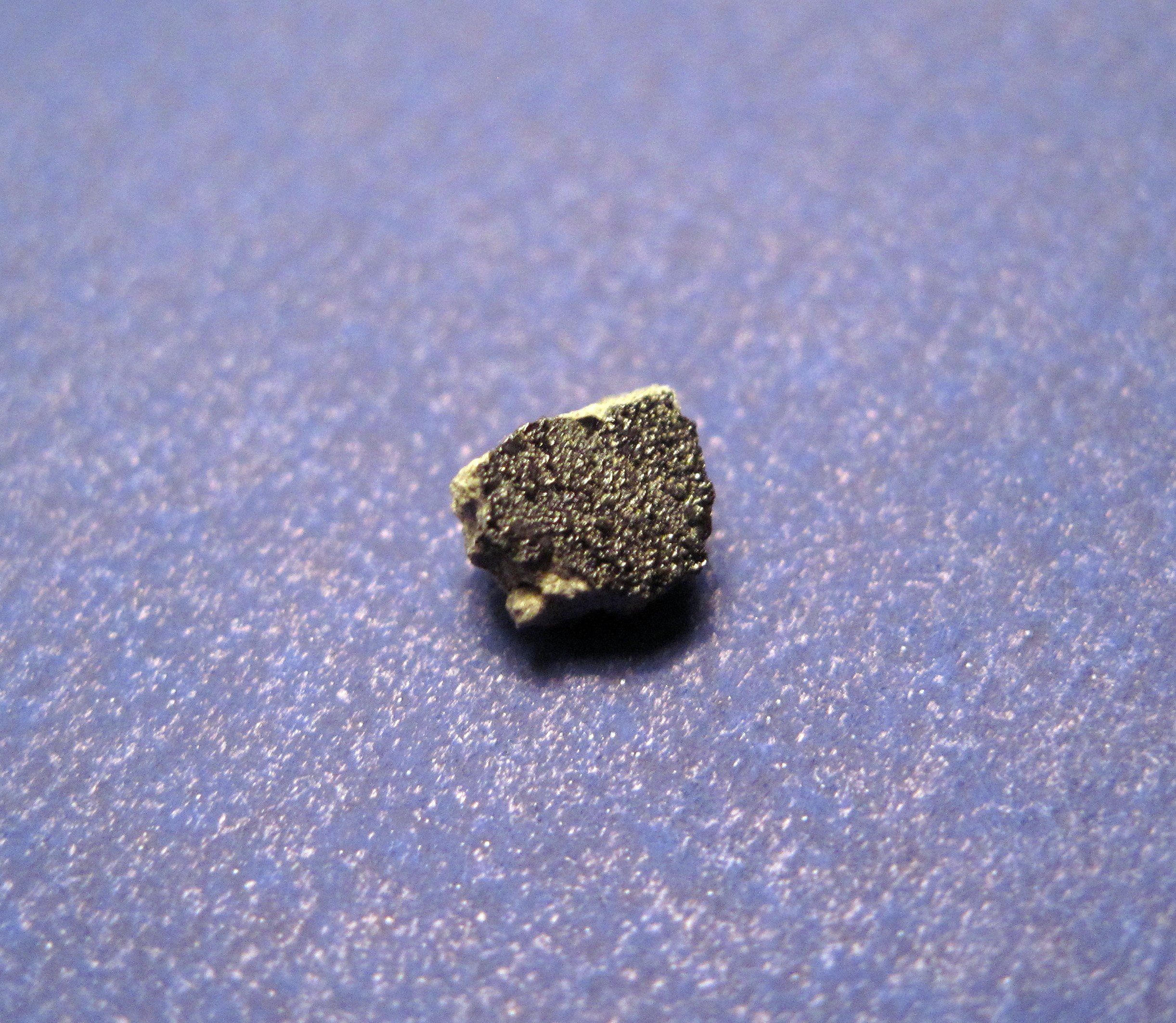 This martian meteorite fell to earth on July 18, 2011 in a valley east of Tata, Morocco. This historic event marks the first witnessed fall of a martian meteorite since Zagami in 1962! Tissint is a shergottite with glossy black fusion crust and a light gray matrix. Despite it's small size, this specimen displays some nice fusion crust.